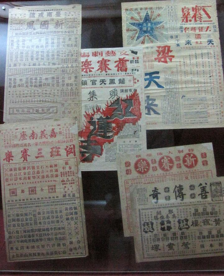 Early posters of Min Opera